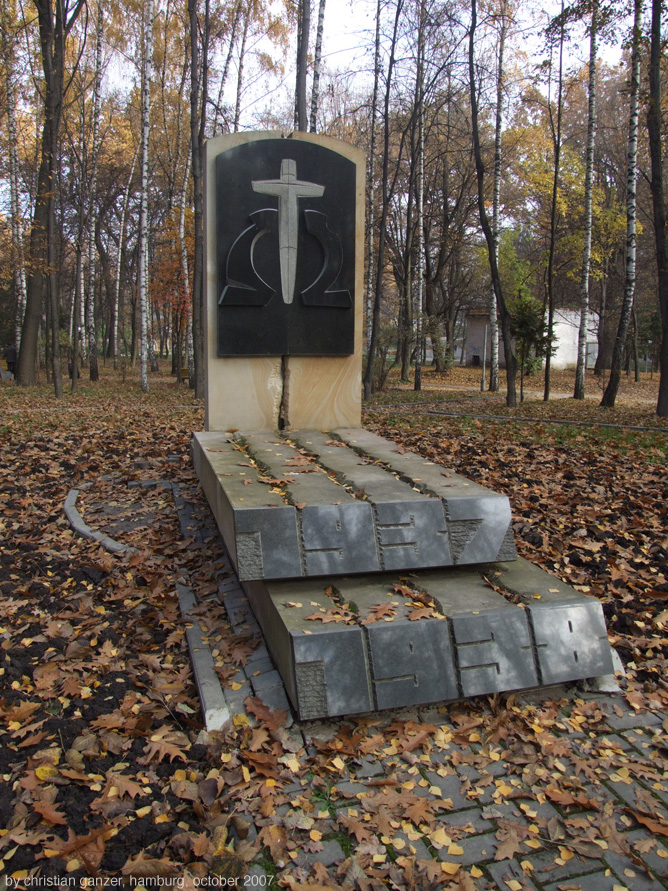 Monument for NKVD-Victims, Gorkij Park Vinnytsya. The monument is located on the site where in 1943 mass-graves have been found.